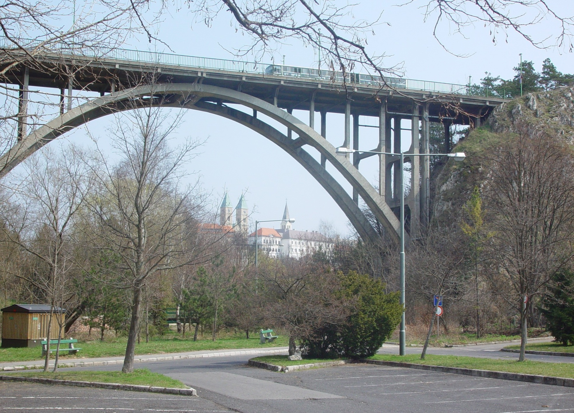 The viaduct of Veszprém.